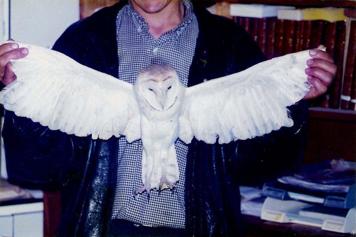 Walon: Hourete di clotchî, aiyes grand å lådje